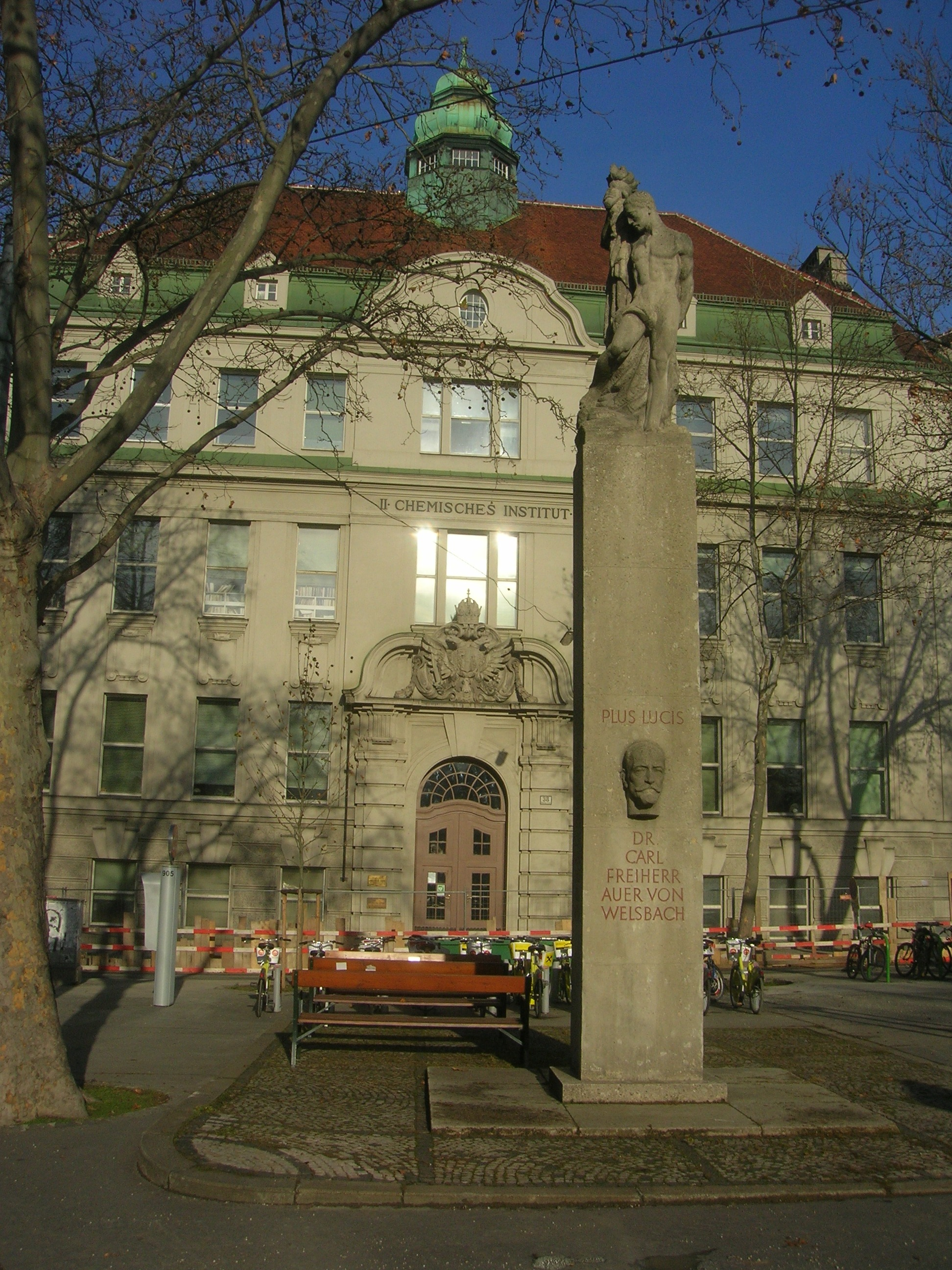 Monument of Carl Auer von Welsbach in front of the faculty of chemistry (Fakultät für Chemie) of the University of Vienna, Währingerstraße 38, Alsergrund, Vienna